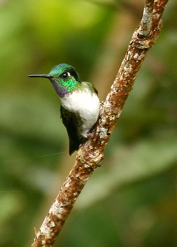 A male White-bellied Mountain-gem (Lampornis hemileucus, syn : Oreopyra hemileucus), Chinchona, Costa Rica 16 July 2008